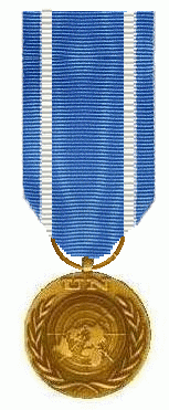 The United Nations Medal